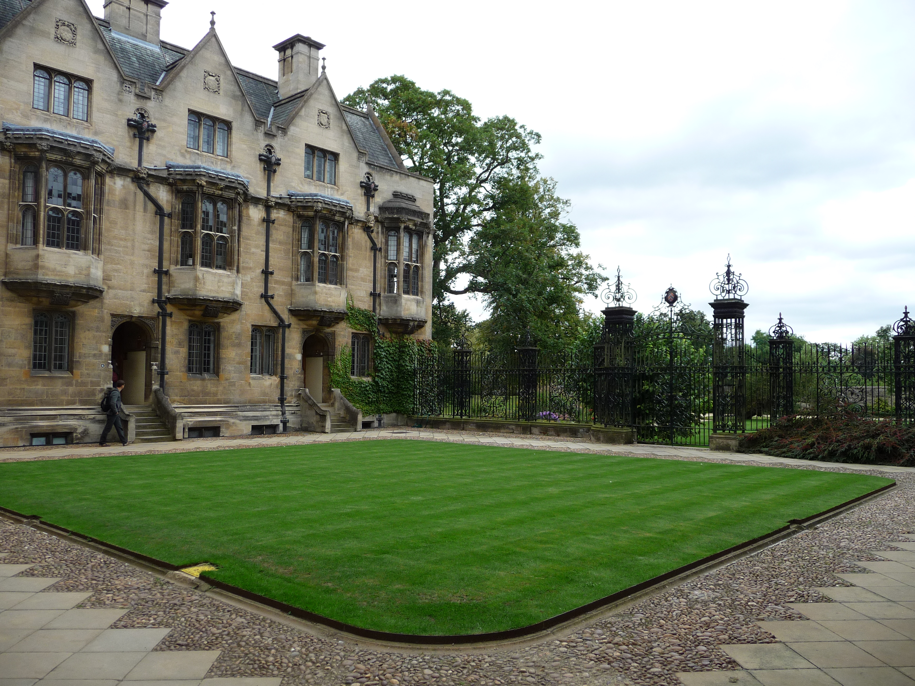 Merton College, Oxford